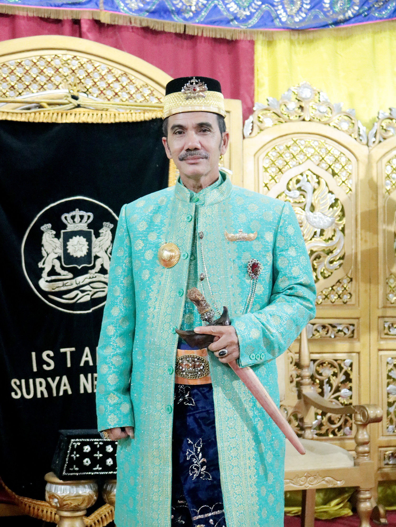 Sri Paduka Yang Mulia Pangeran Ratu Gusti Arman Surya Negara Al-Haj, Raja Sanggau yang ke-25.